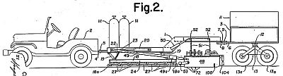 PraeceptorIP (talk) 21:59, 18 February 2009 (UTC); drawing from patent involved in Anderson’s-Black Rock As a US patent drawing, this jpeg is not protected under US copyright law.